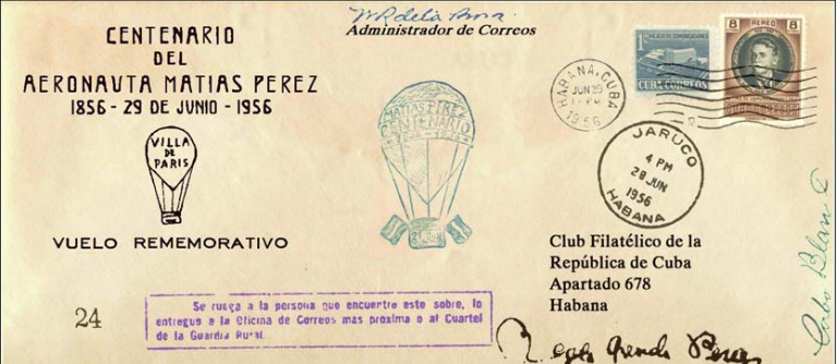 First Day envelope dedicated to Matias Perez